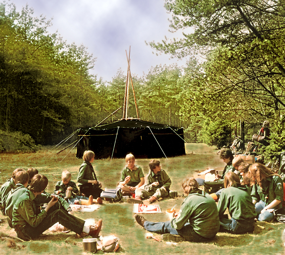 Tent camp, outdoor recreation